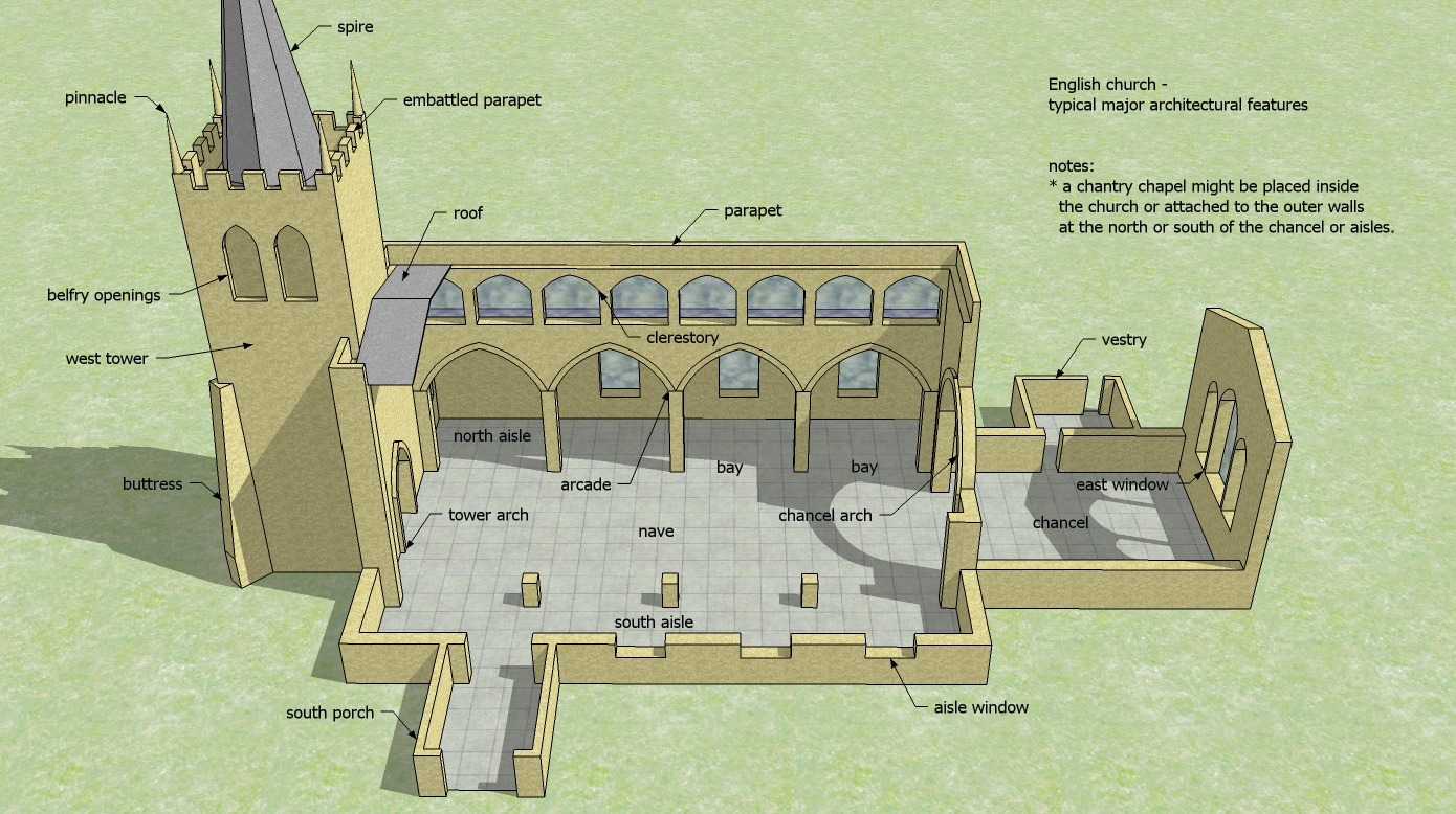 Image showing the typical major architectural features found in English churches. Own work created using Sketchup 5 program.